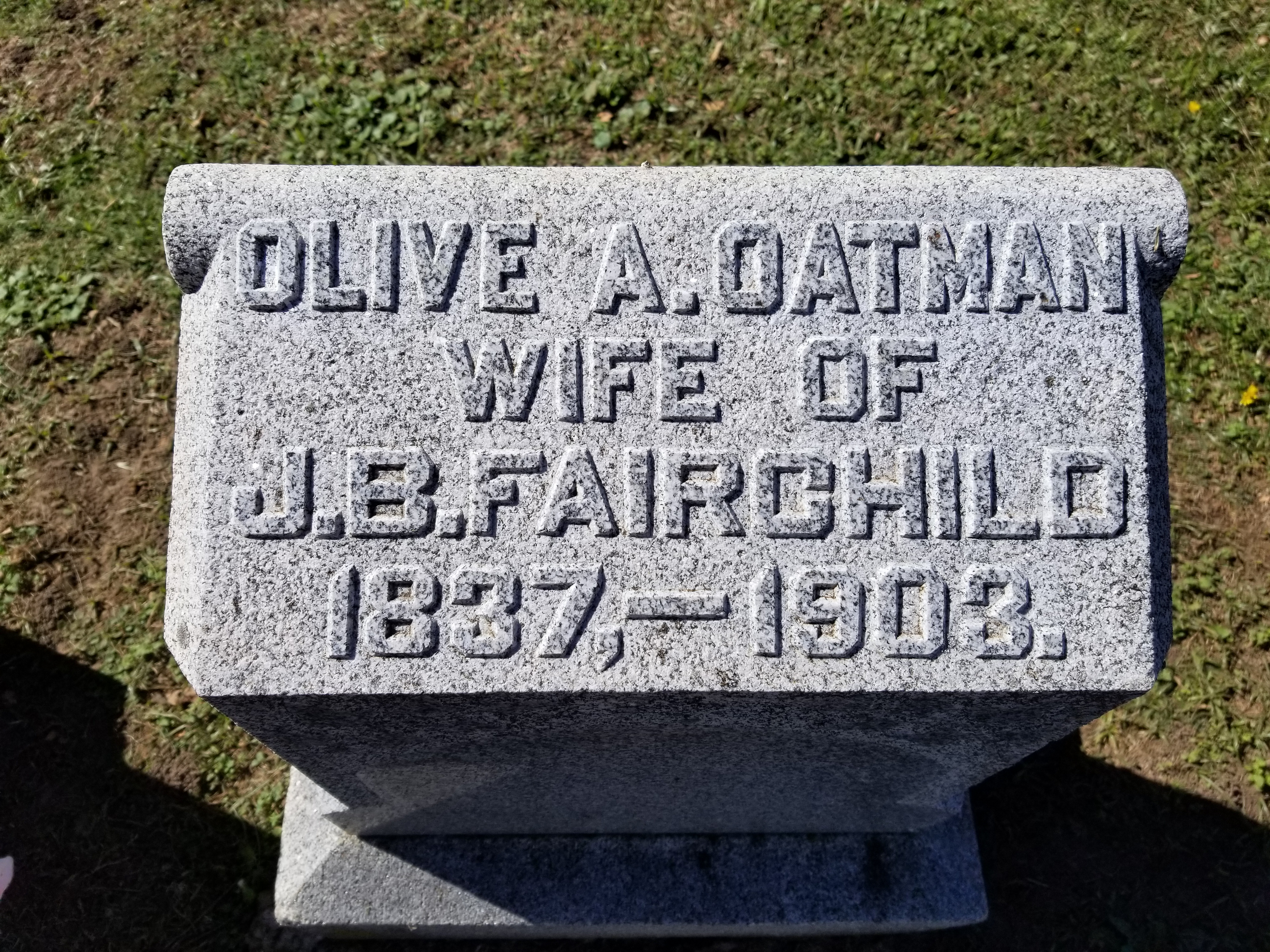 Olive Oatman Fairchild's Tombstone in Sherman, Texas.